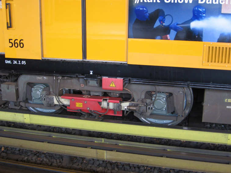 Pickup shoe with top contact in Berlin underground - line U2